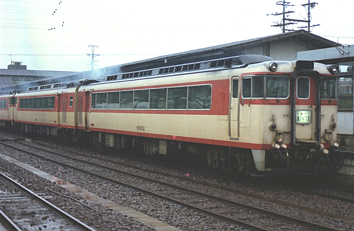 Meitetsu KiHa 8000 series DMU at Mino-Ota Station